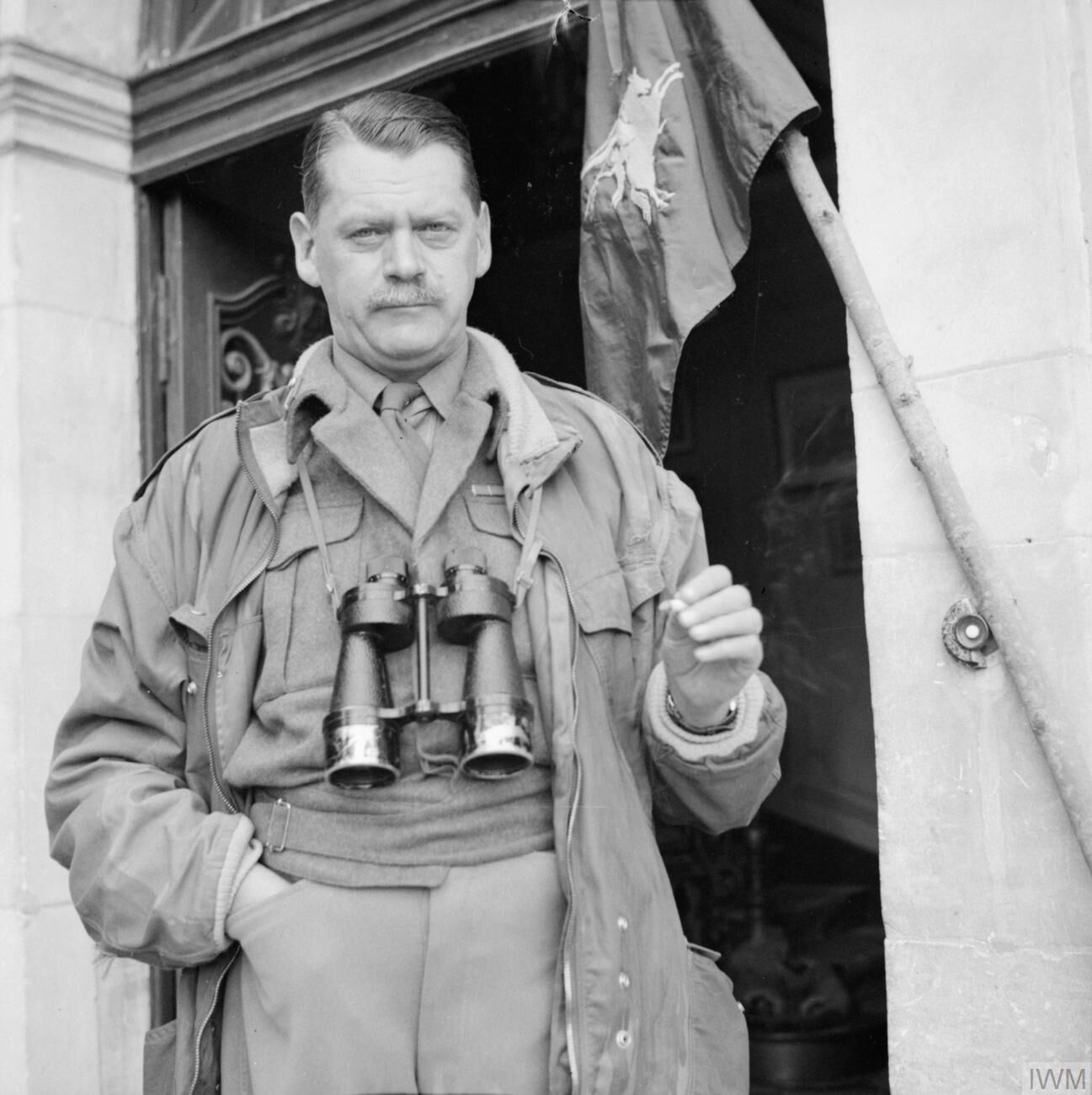 IWM caption : THE BRITISH ARMY IN NORMANDY 1944. Major General R N Gale, GOC 6th Airborne Division.